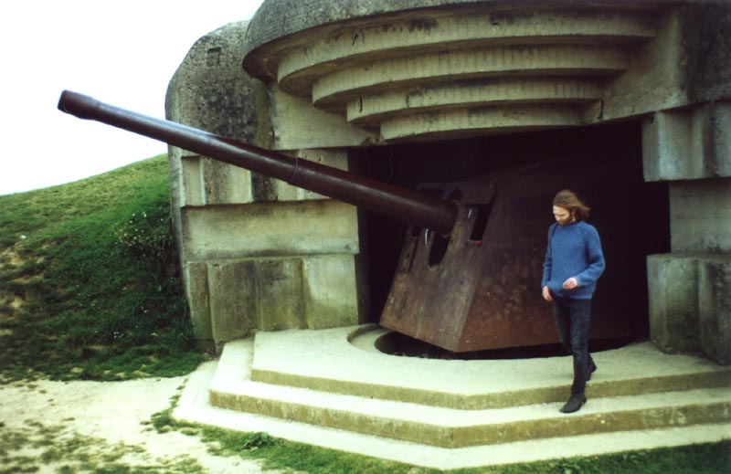 Taken and donated by User:Guinnog, 1997 150mm gun, Normandy